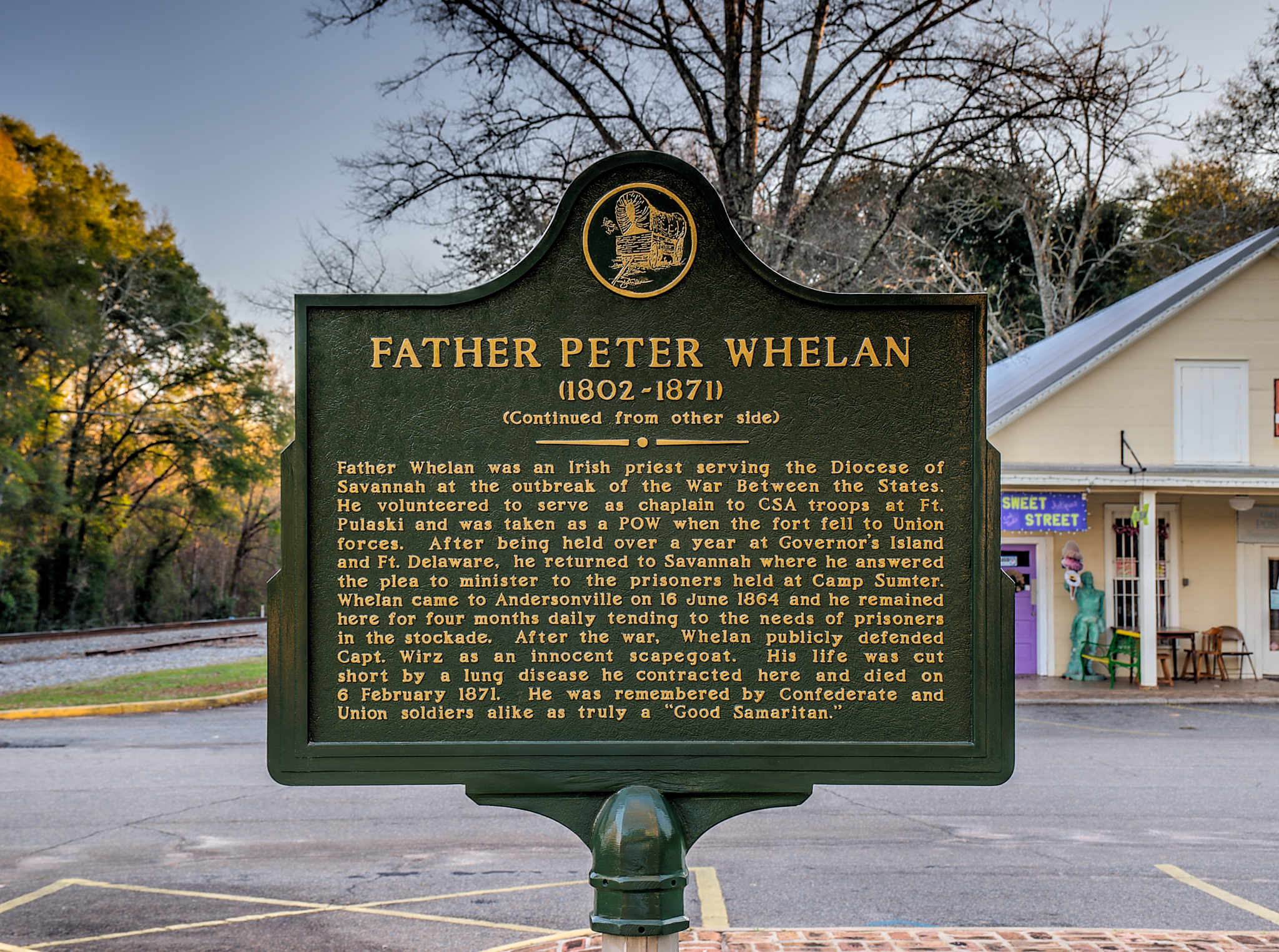 Historical marker for Father Peter Whelan